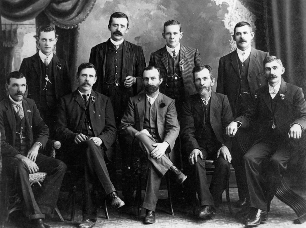 Men of the Anstead family, pioneers in the Moggill Area